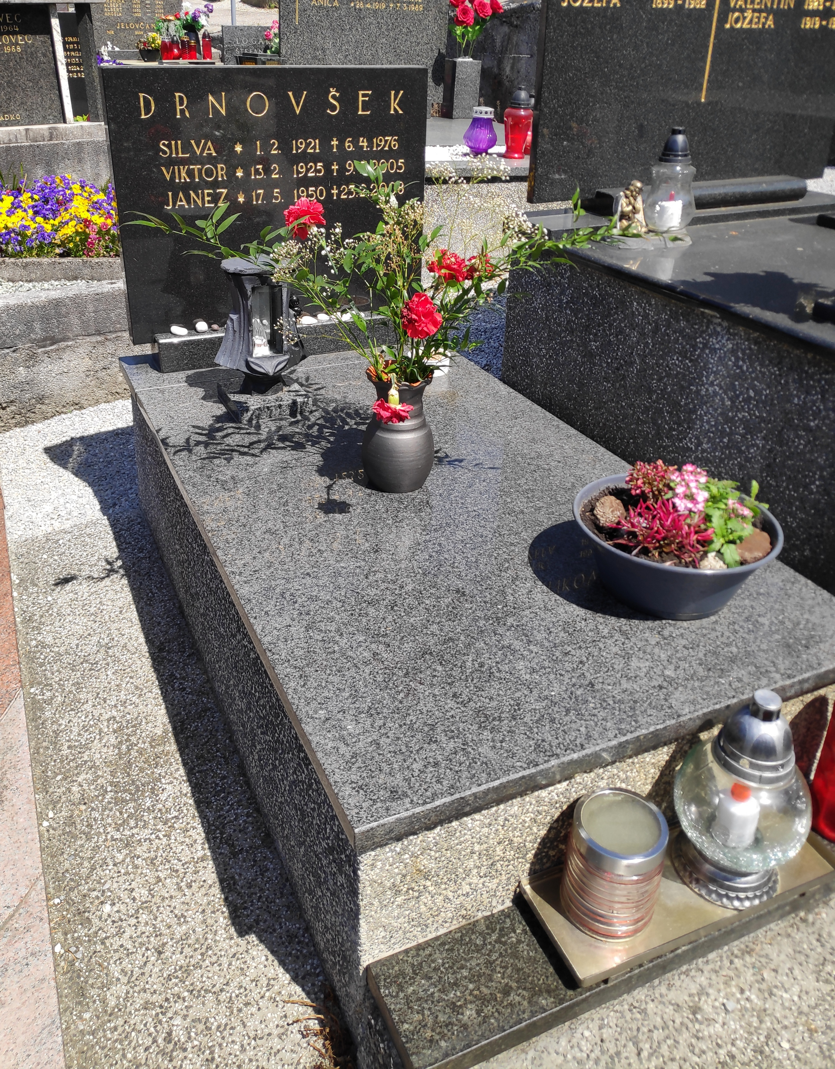 Janez Drnovšek family grave (Zagorje ob Savi cemetery)